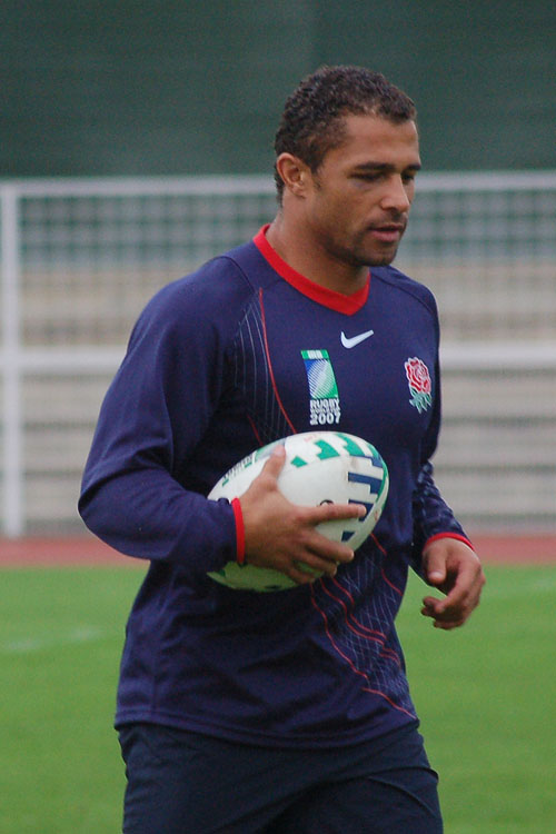 Jason Robinson on the mend.